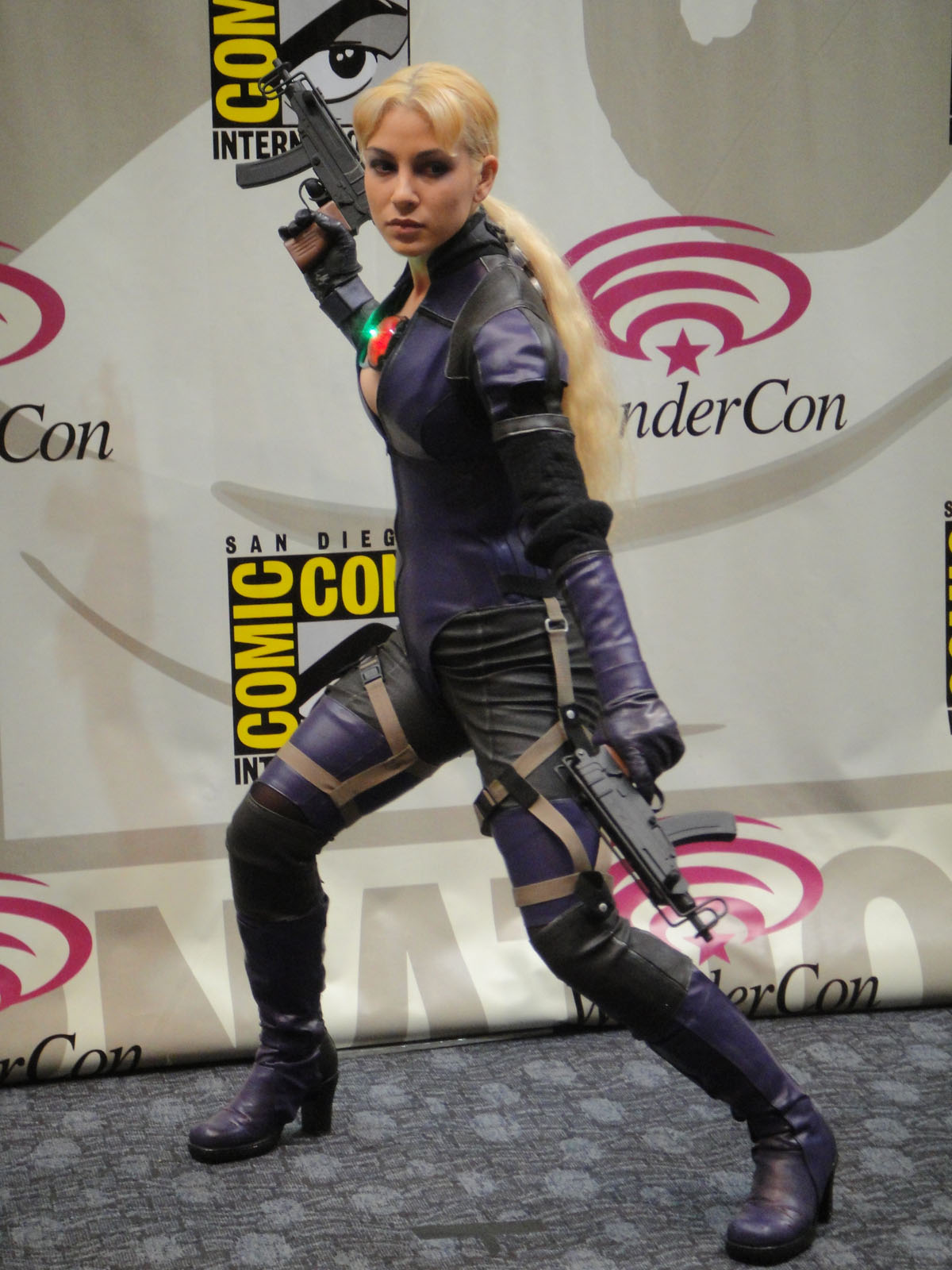 Cosplay of Resident Evil 5.